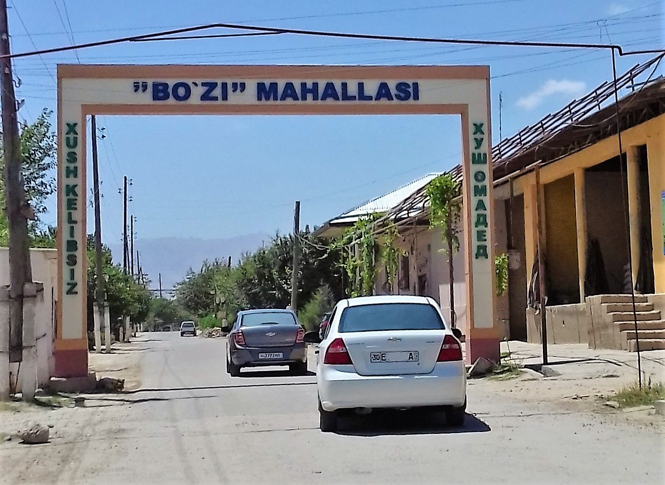 Bilingual arch ("Welcome" in Uzbek and Tajik languages) at the entrance to one of the mahallas of the city of Samarkand, Uzbekistan. "Bo'zi" mahallah.